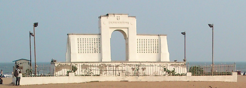 This memorial after restoration work. Now the monument is protected with perimeter fence.